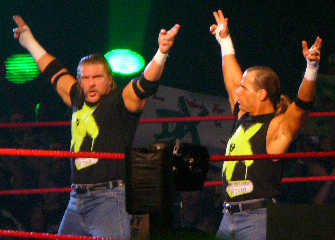 D-Generation X (Triple H and Shawn Michaels) pose at an edition of WWE RAW in Columbia, South Carolina.